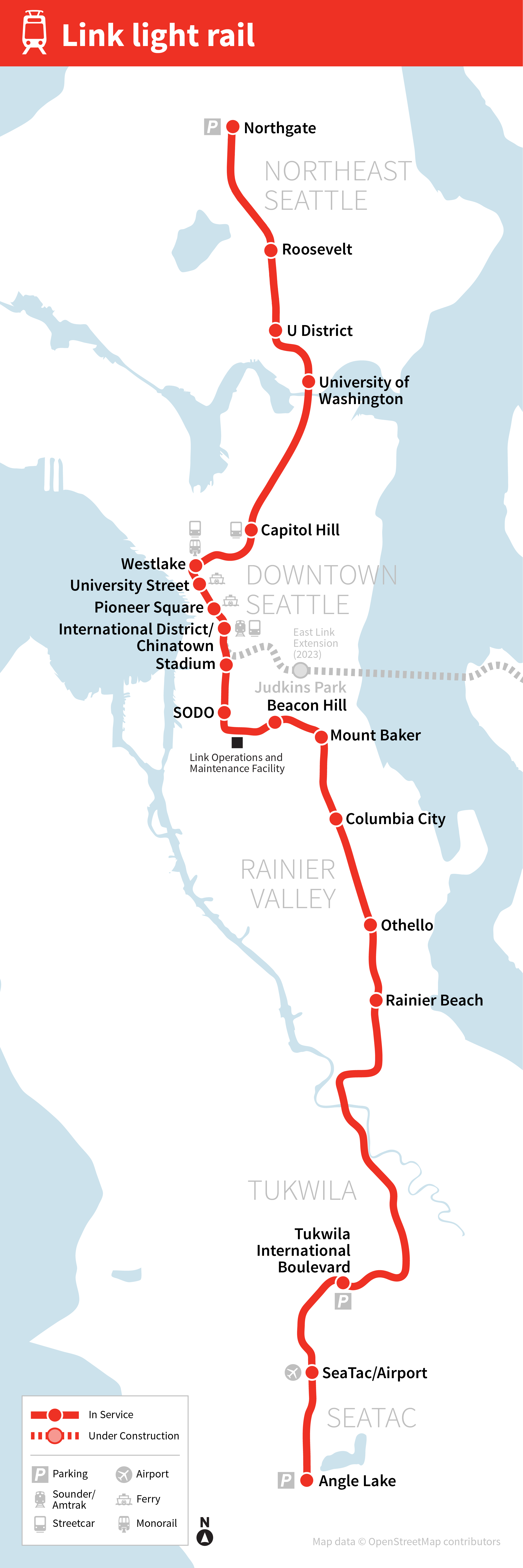 Geographic route map of Link light rail as of March 2017, including extensions currently under construction. Updated version of Link light rail, route map, March 2016